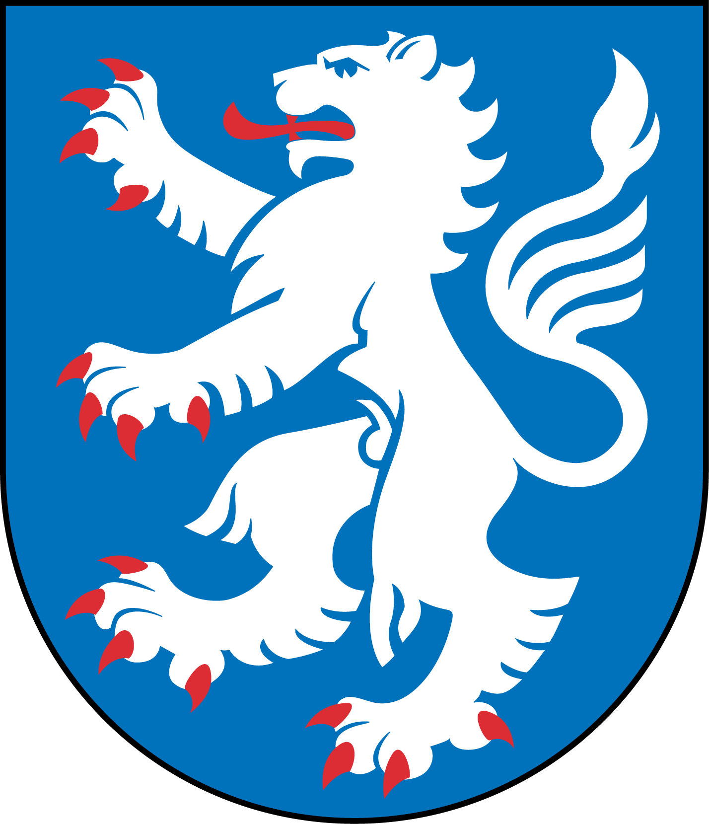 Coat of arms of the province of Halland, Sweden. Painted by Vladimir A. Sagerlund when he was the heraldic artist at the National Archives of Sweden (Riksarkivet). This representation of a coat of arms is potentially different from the one used by the armiger (municipality or organisation) in question. = ⇑“Sable, a lionrampant or” This coat of arms was drawn based on its blazon which – being a written description – is free from copyright. Any illustration conforming with the blazon of the arms is considered to be heraldically correct. Thus several different artistic interpretations of the same coat of arms can exist. The design officially used by the armiger is likely protected by copyright, in which case it cannot be used here.Individual representations of a coat of arms, drawn from a blazon, may have a copyright belonging to the artist, but are not necessarily derivative works. Further information: Commons:Coats of arms and Template:Coa blazon